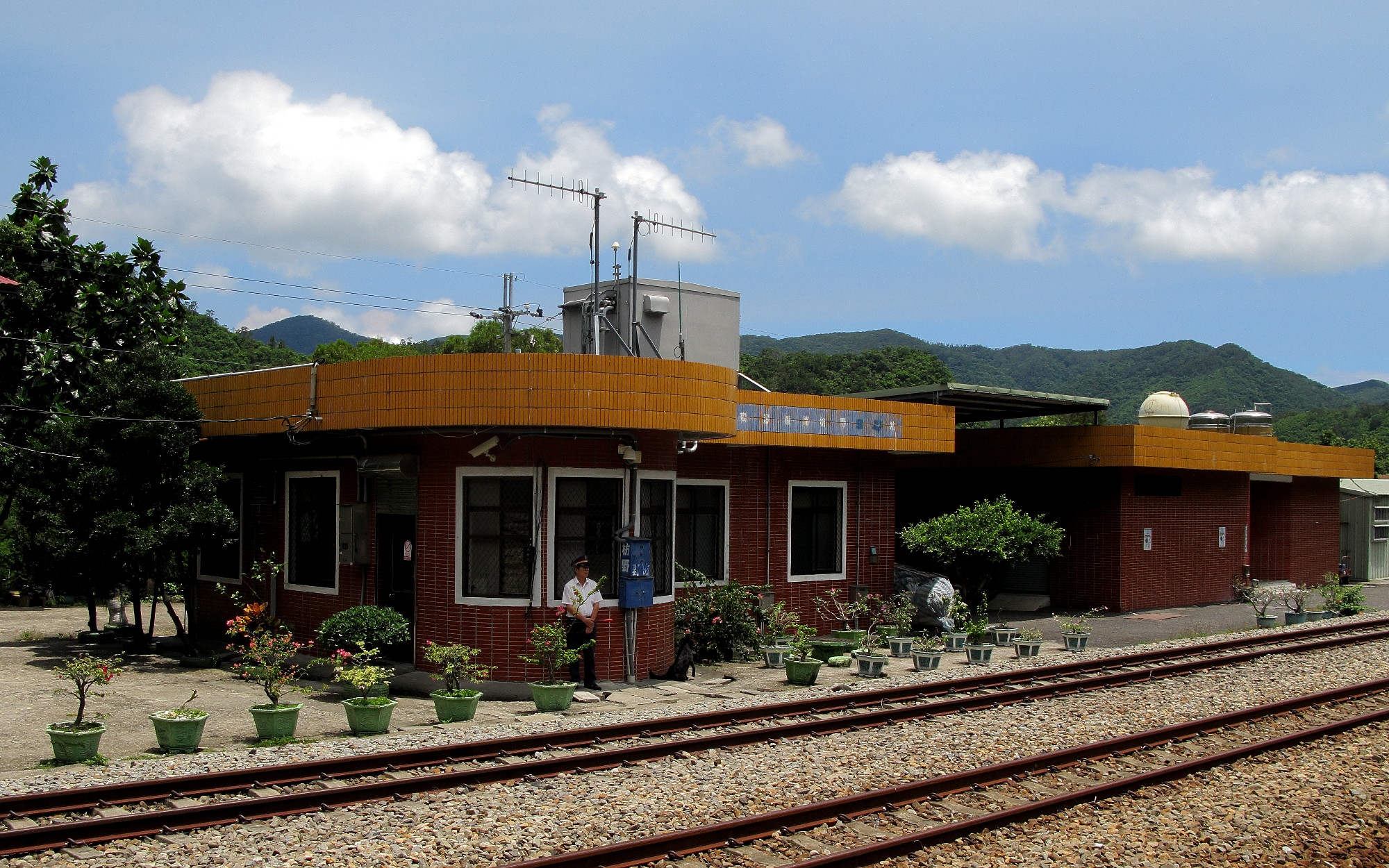 TRA Fangye Signal Station. 中文（台灣）: 臺灣鐵路管理局枋野號誌站。